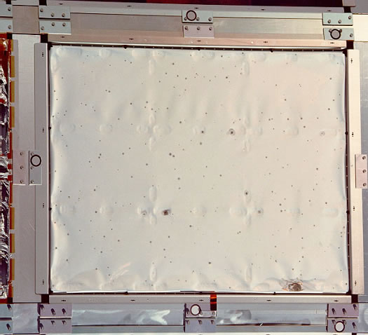 Debris impacts in a LDEF pannel. A close-up view of a panel from the Long Duration Exposure Facility (LDEF) spacecraft.